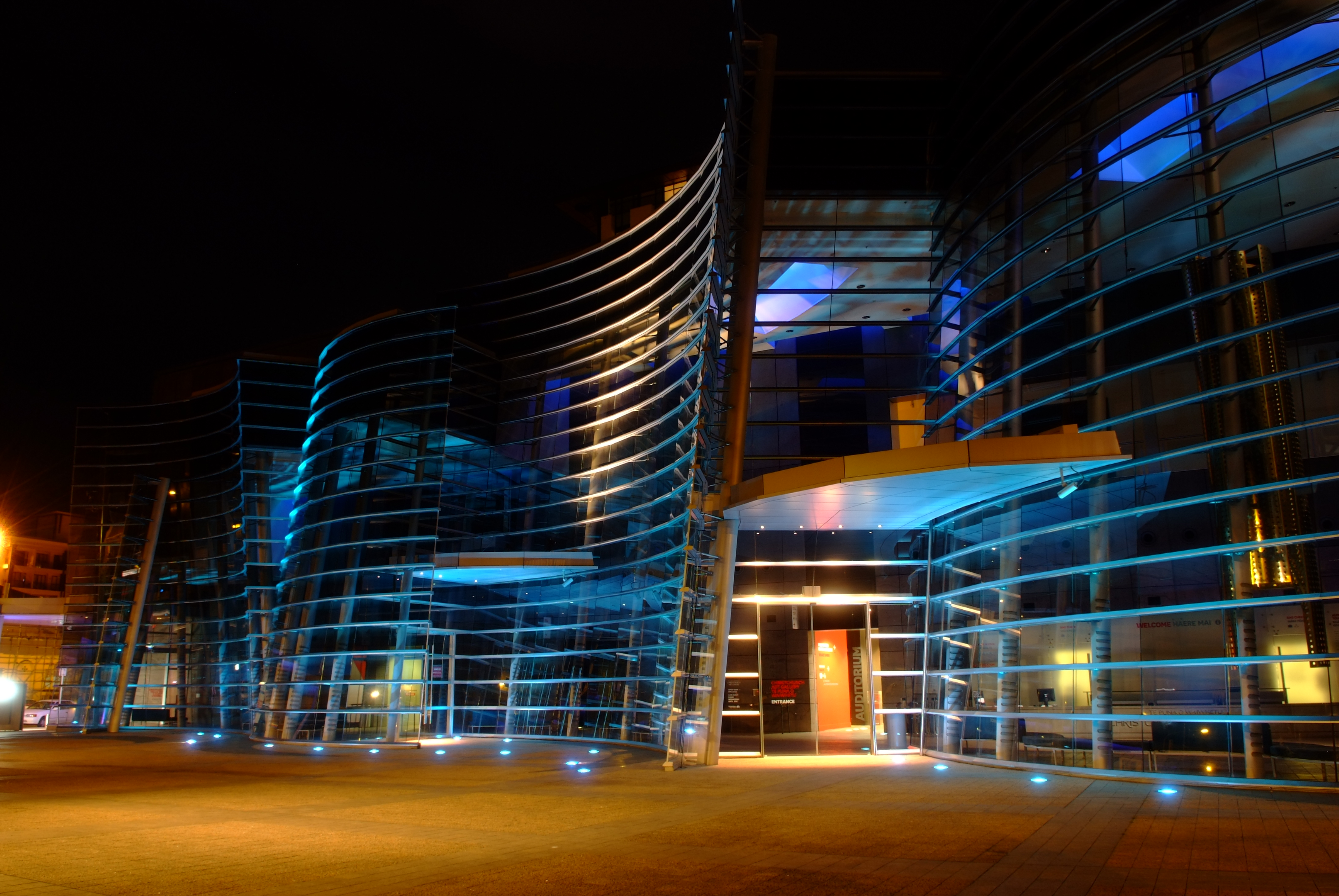 Night time shot of the Christchurch Art Gallery.